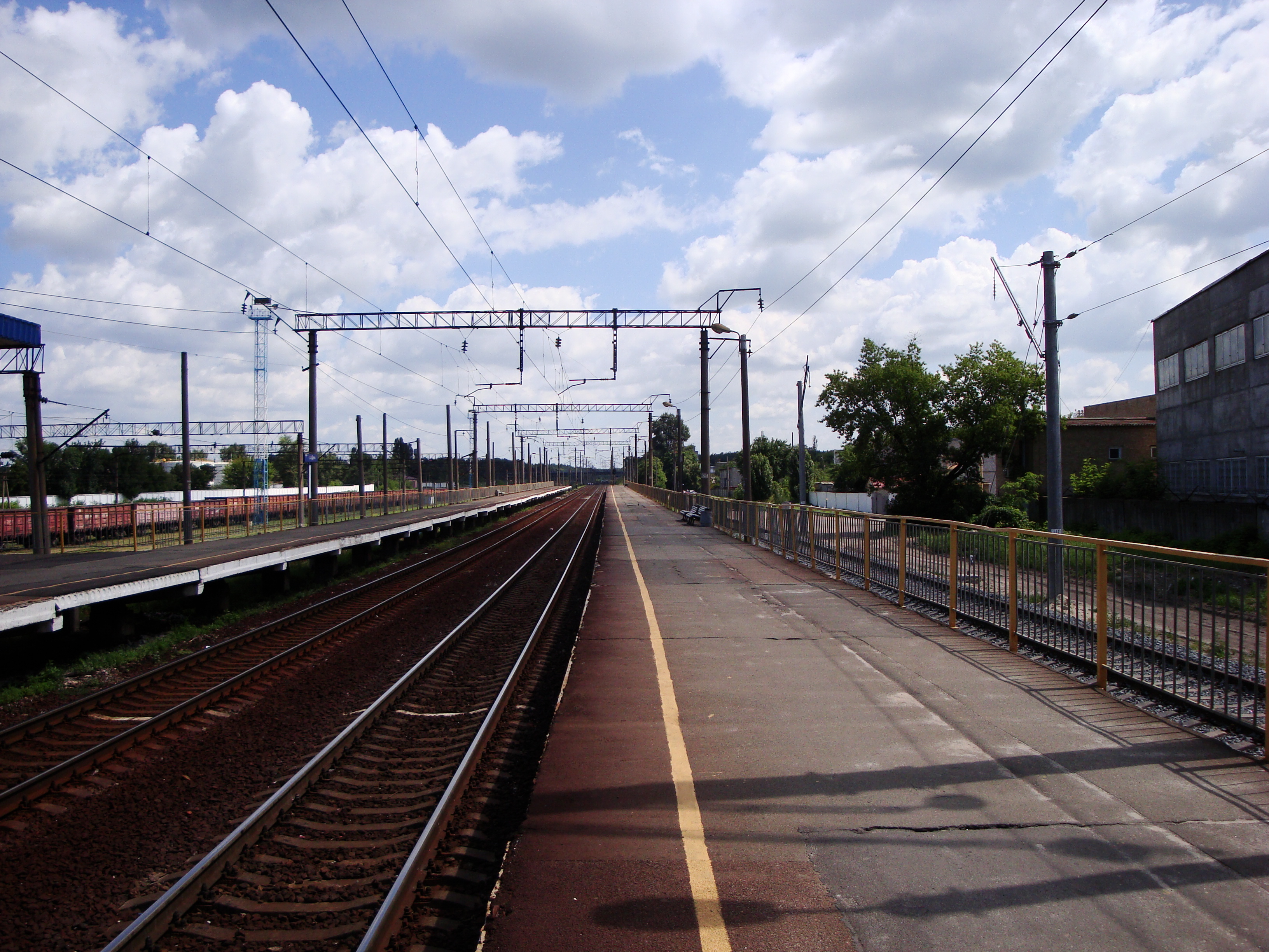 Darnytsia-Depo Railway Halt in Kyiv, Ukraine